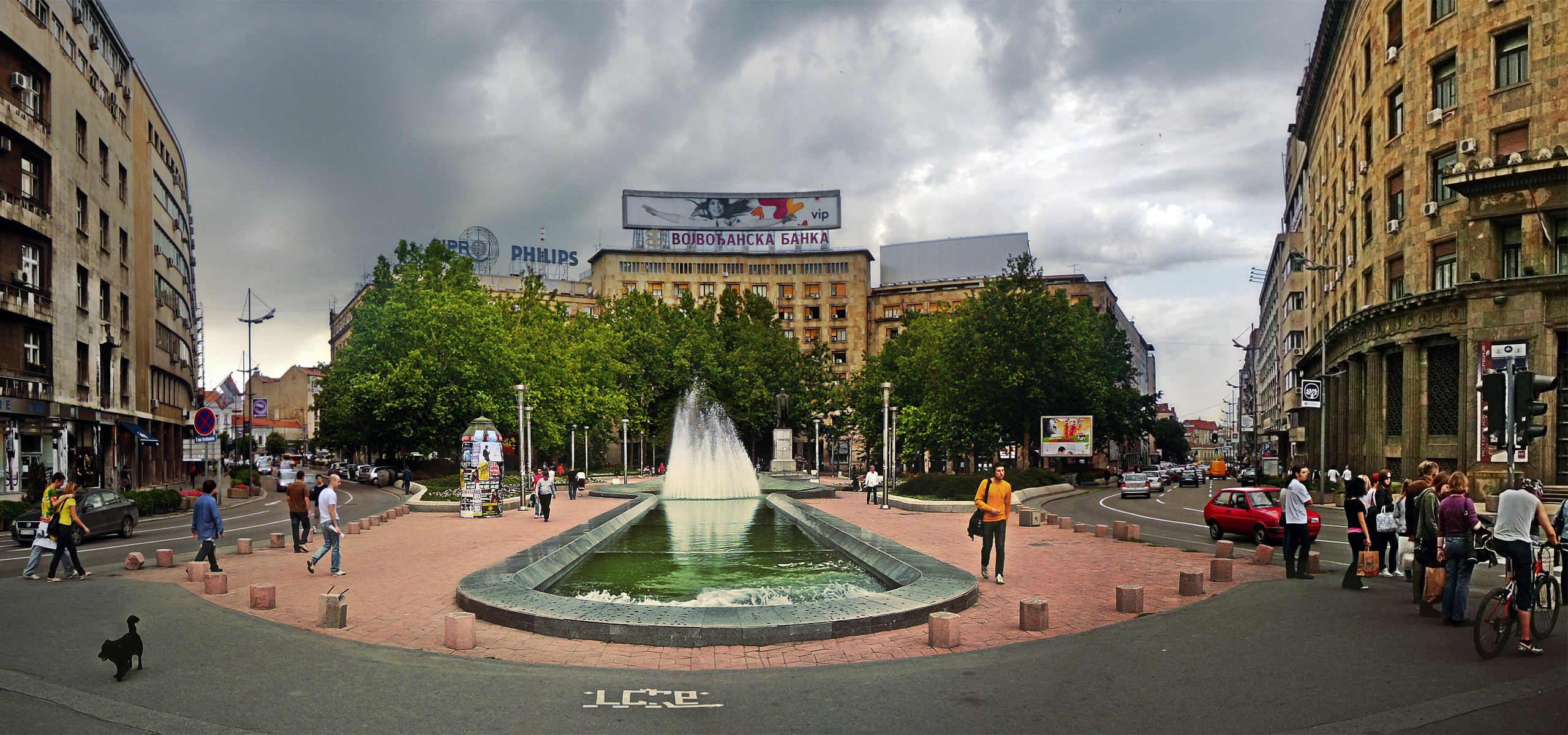 Trg Nikole Pašića (Nikola Pašić Square) in Belgrade. Monument of Pašić can be seen behind the fountain. The building behind the threes is Dom Sindikata.